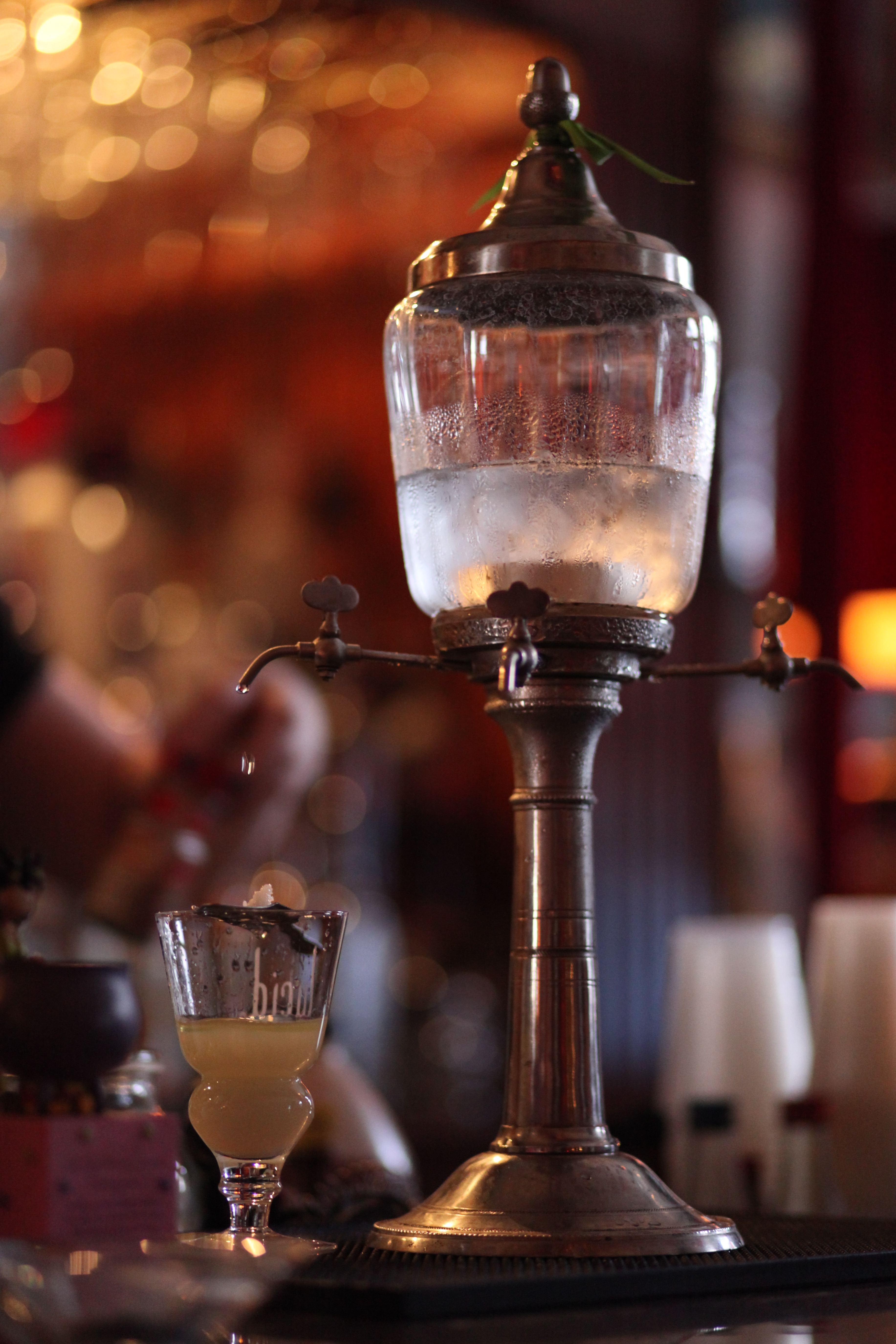 Absinthe fountain with four taps at the Pravda Bar in New Orleans.